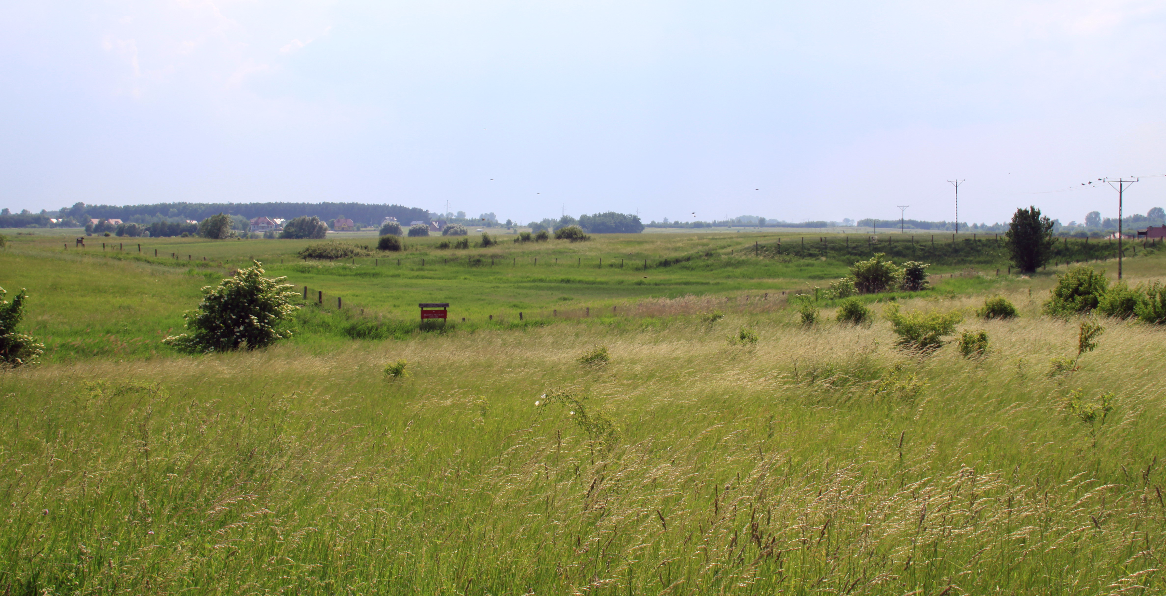 Owczary, Świętokrzyskie Voivodeship - Nature reserve Owczary.